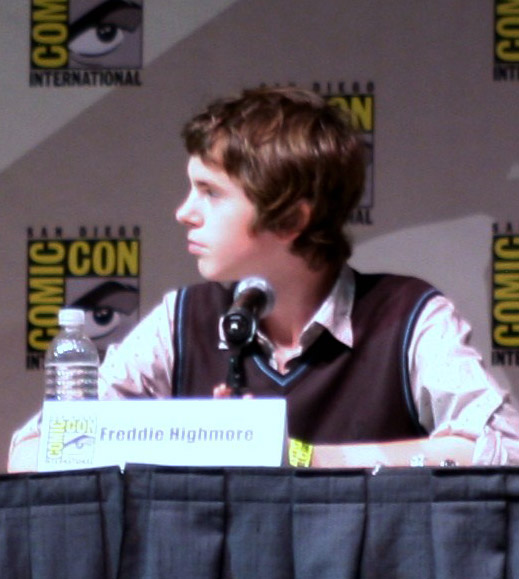 Freddie Highmore at the Astro Boy press conference